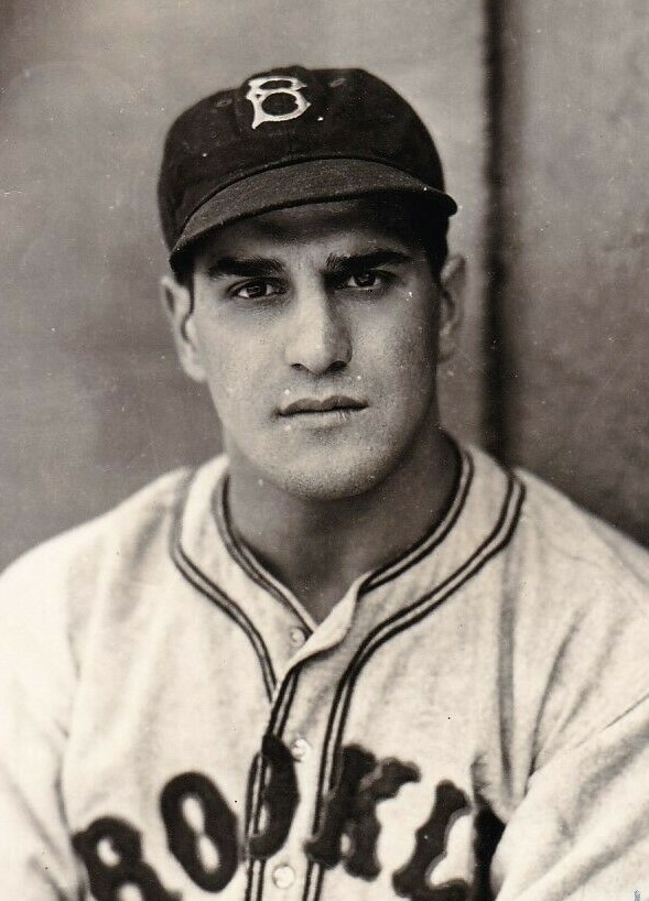 Image cropped from a black and white postcard of Brooklyn Dodgers player Frank Skaff